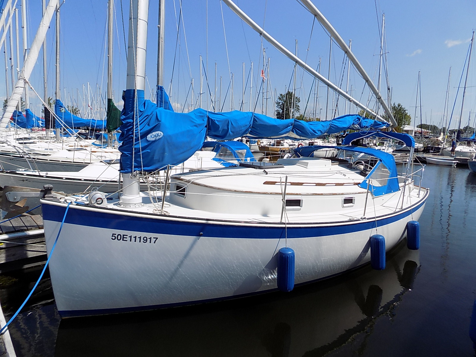 A Nonsuch 26 sailboat named Legacy.